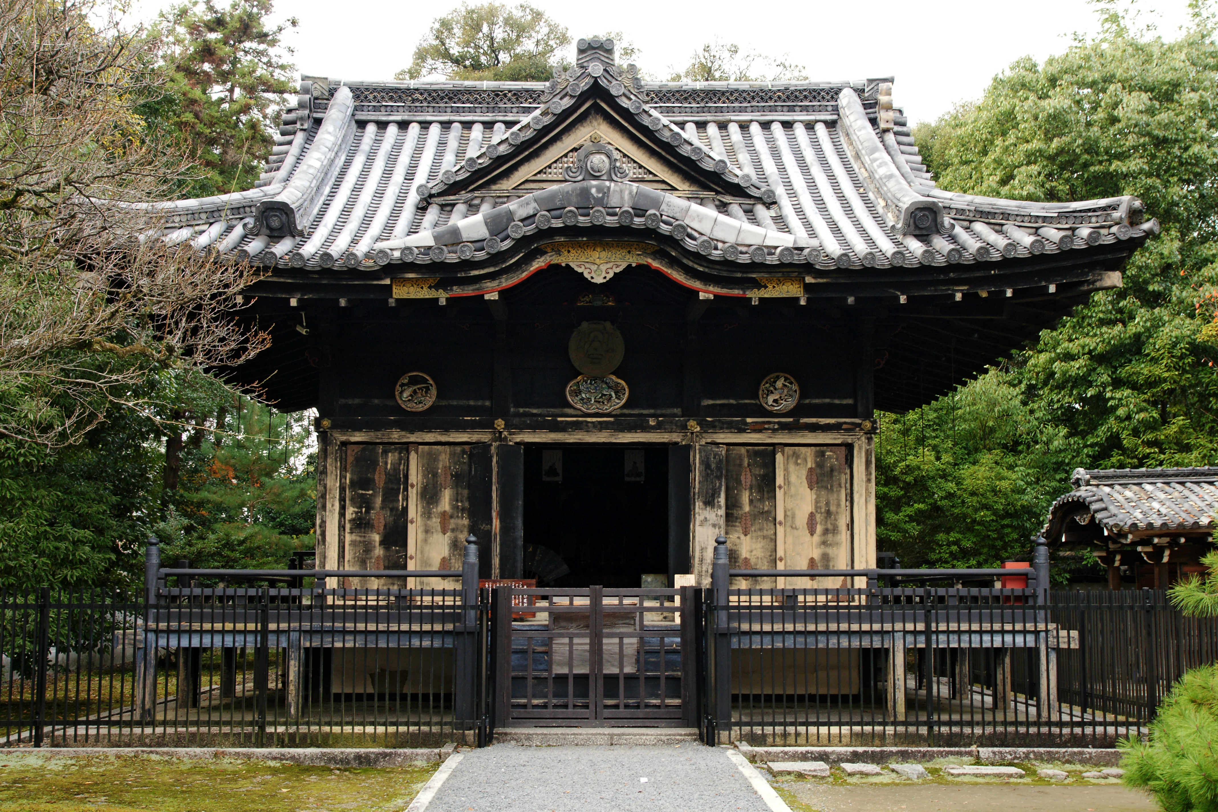 Konchi-in in Kyoto, Kyoto Prefecture, Japan